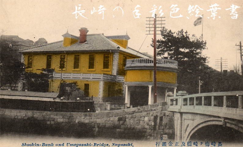 Japanese hand tinted postcard of Umegasaki Bridge and the Shokin Bank in Nagasaki